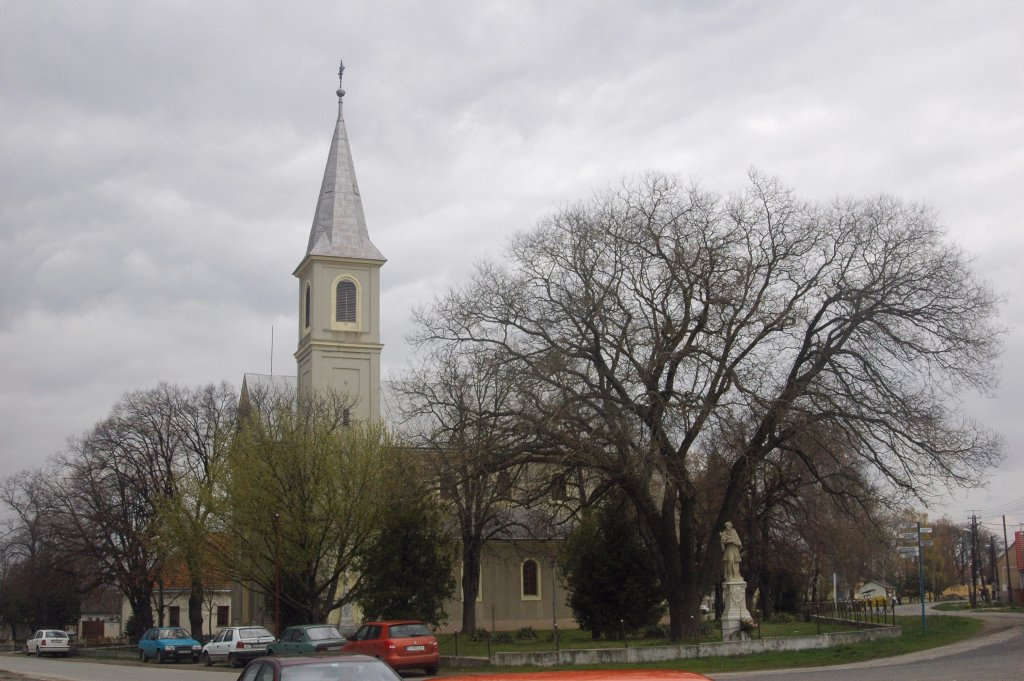 Sekule, Saint Mary's church